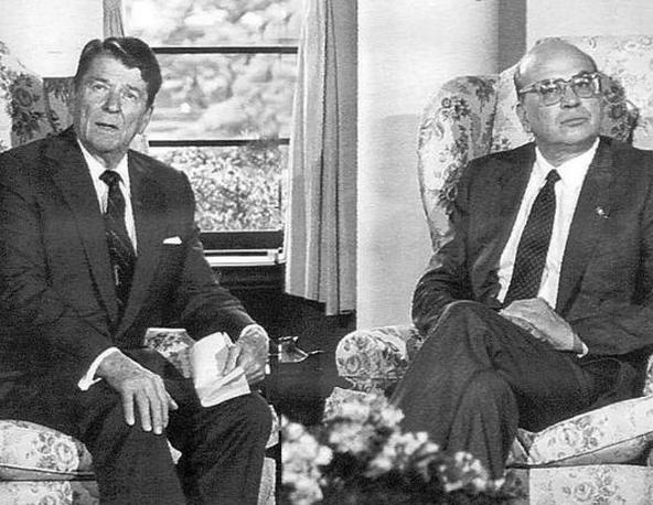 Ronald Reagan and Bettino Craxi